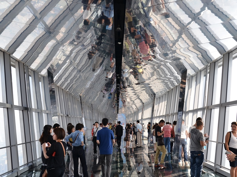 Shanghai World Financial Center, Shanghai. Floor 100.